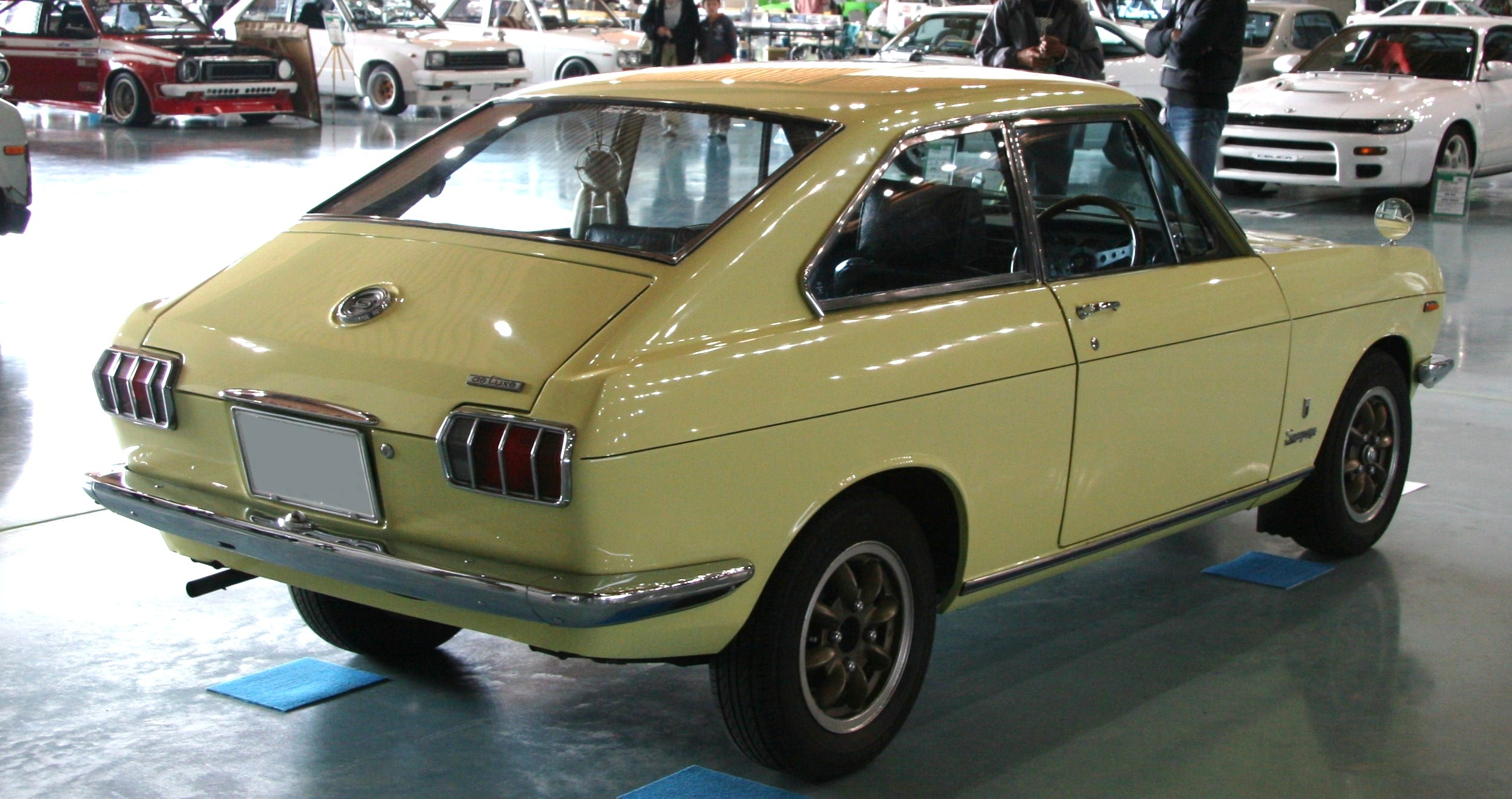 Datsun Sunny